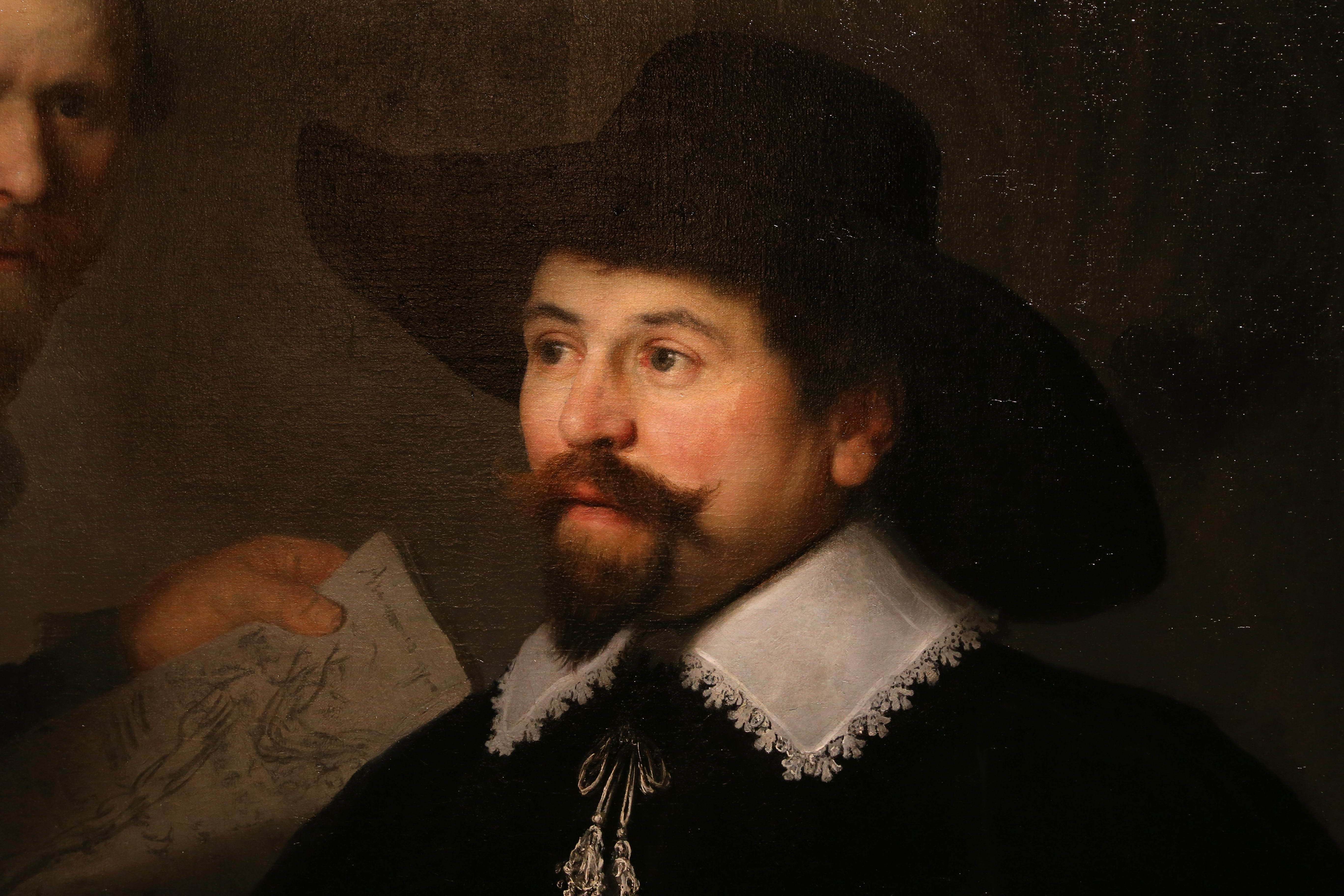 Paintings by Rembrandt in the Mauritshuis